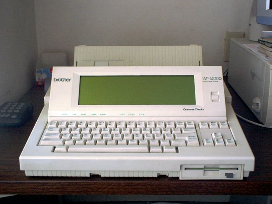 Image of a now-obsolete hardware type word processor.